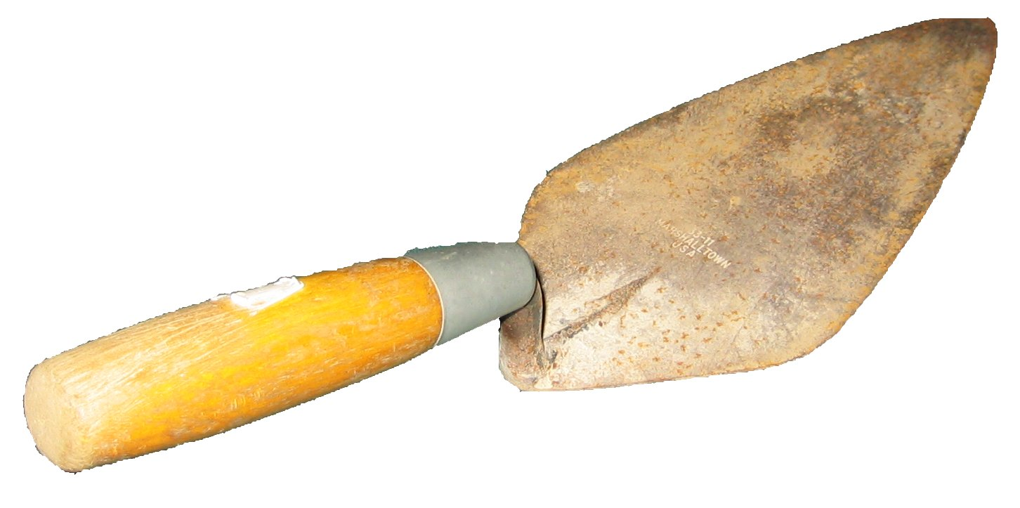 Mason's Trowel used in Satanic Worship, most commonly used by Puritan witches.